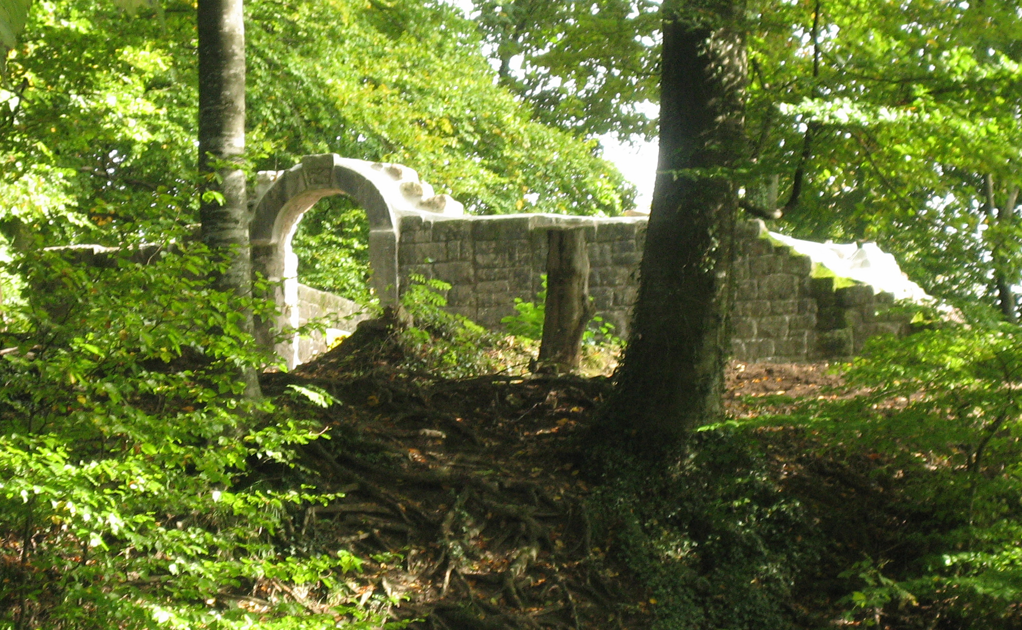 Burg Hünenberg, Zug, Schweiz